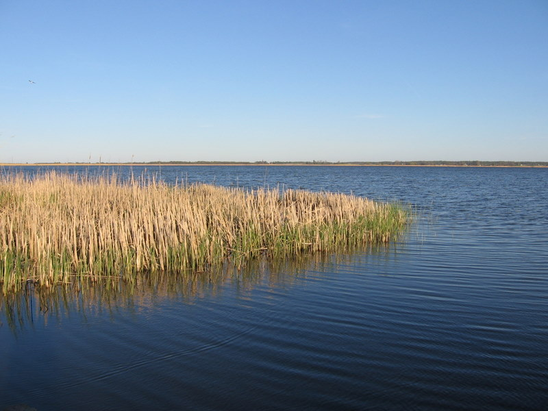 Lake Resko Przymorskie in Pomerania (Poland)